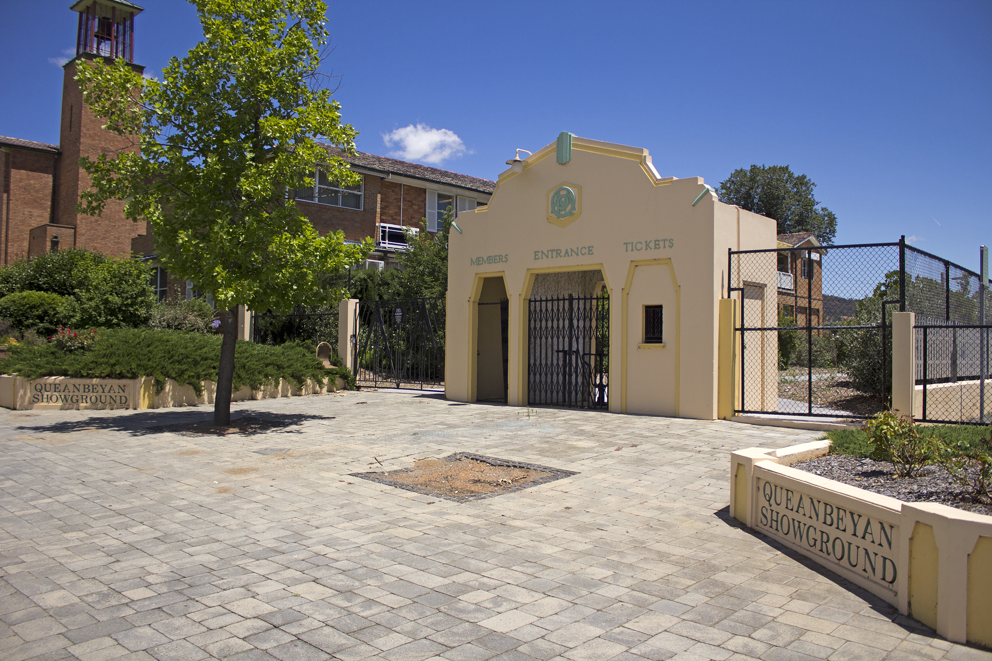 Queanbeyan Show Grounds Lowe Street gate.